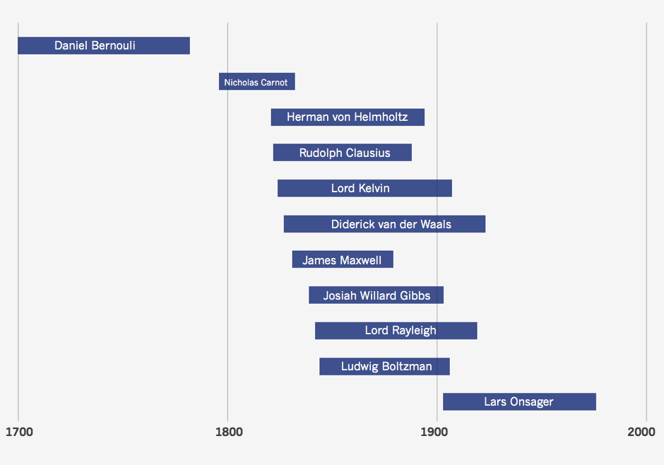 The lifetimes of some of the most important contributors to the fields of thermodynamics and statistical mechanics